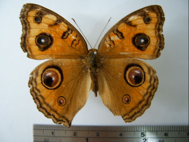 Kerry took this picture at his house on 16 July 2005 Scientific name: Junonia almana (back) Date of collection: VII 1996 Place of collection: Taipei city, Taiwan